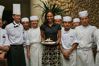 MissWorld